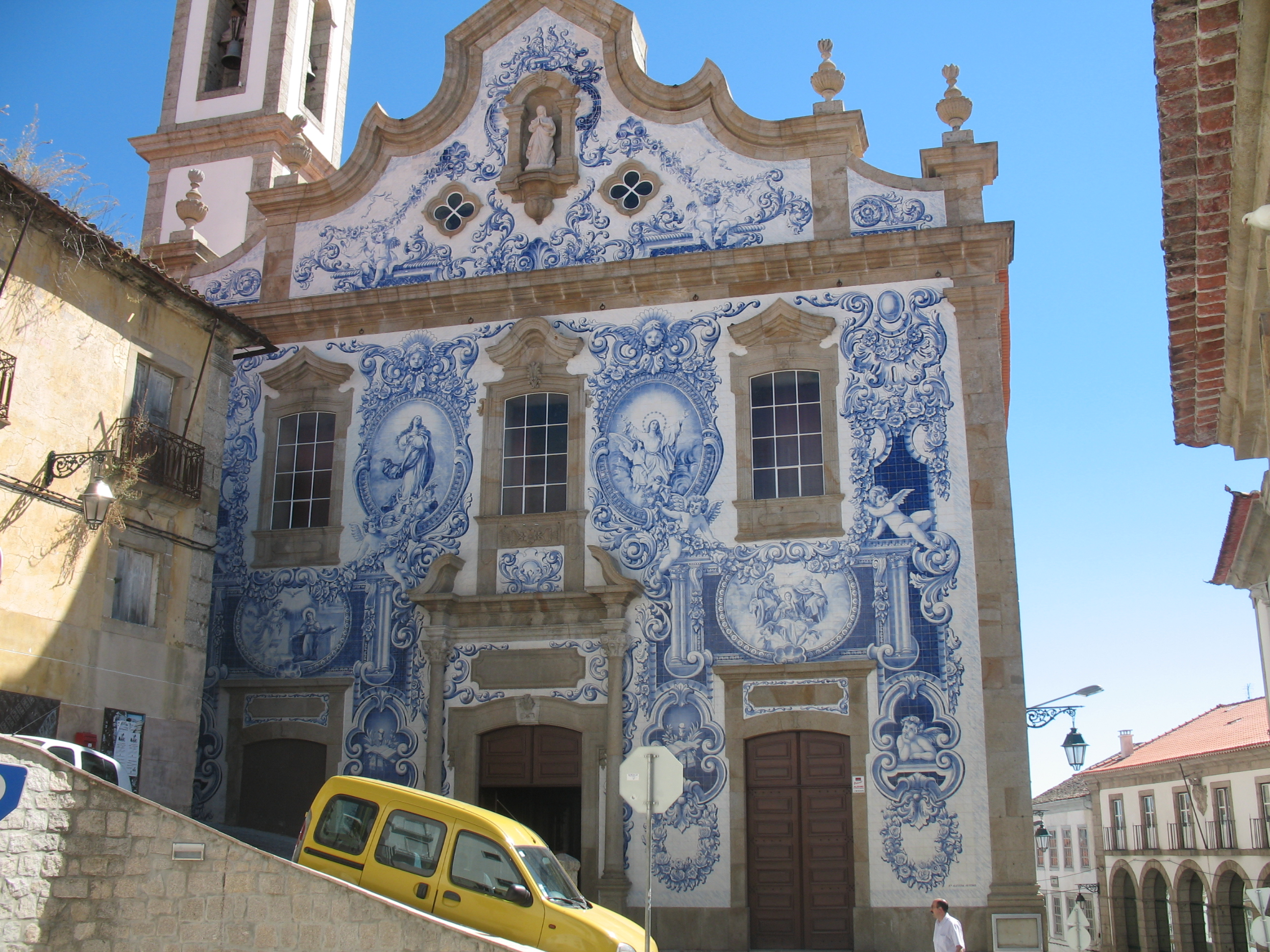 covilha, old part of city